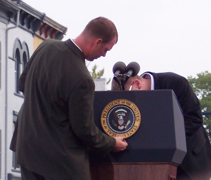 White House Communications Agency Audiovisual Lead placing the Seal of the President of the United States on a podium before he speaks.